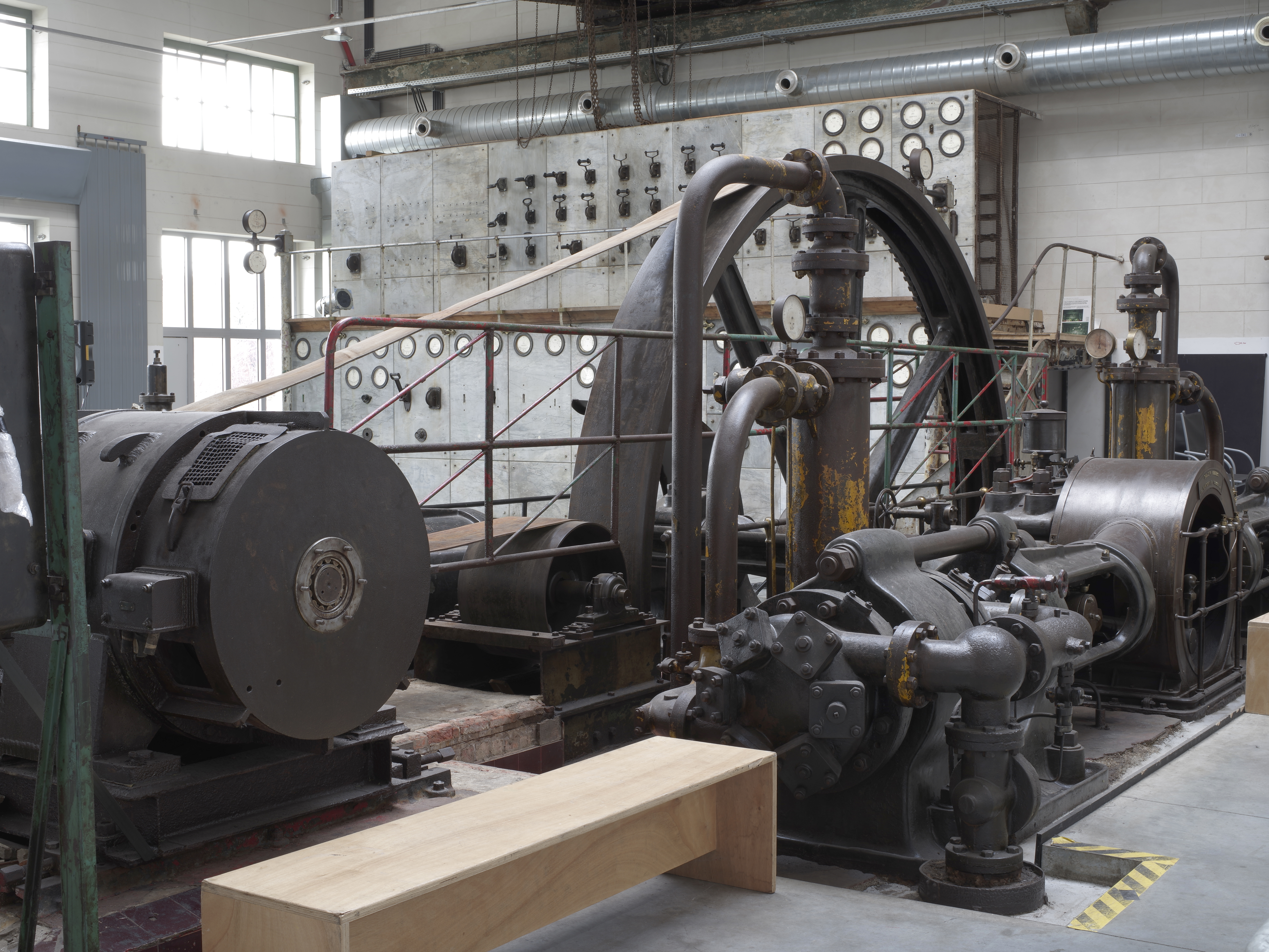 BRASS, the machine room of the former brewery Wielemans-Ceuppens at avenue Van Volxem 364 in 1190 Brussels (Forest).